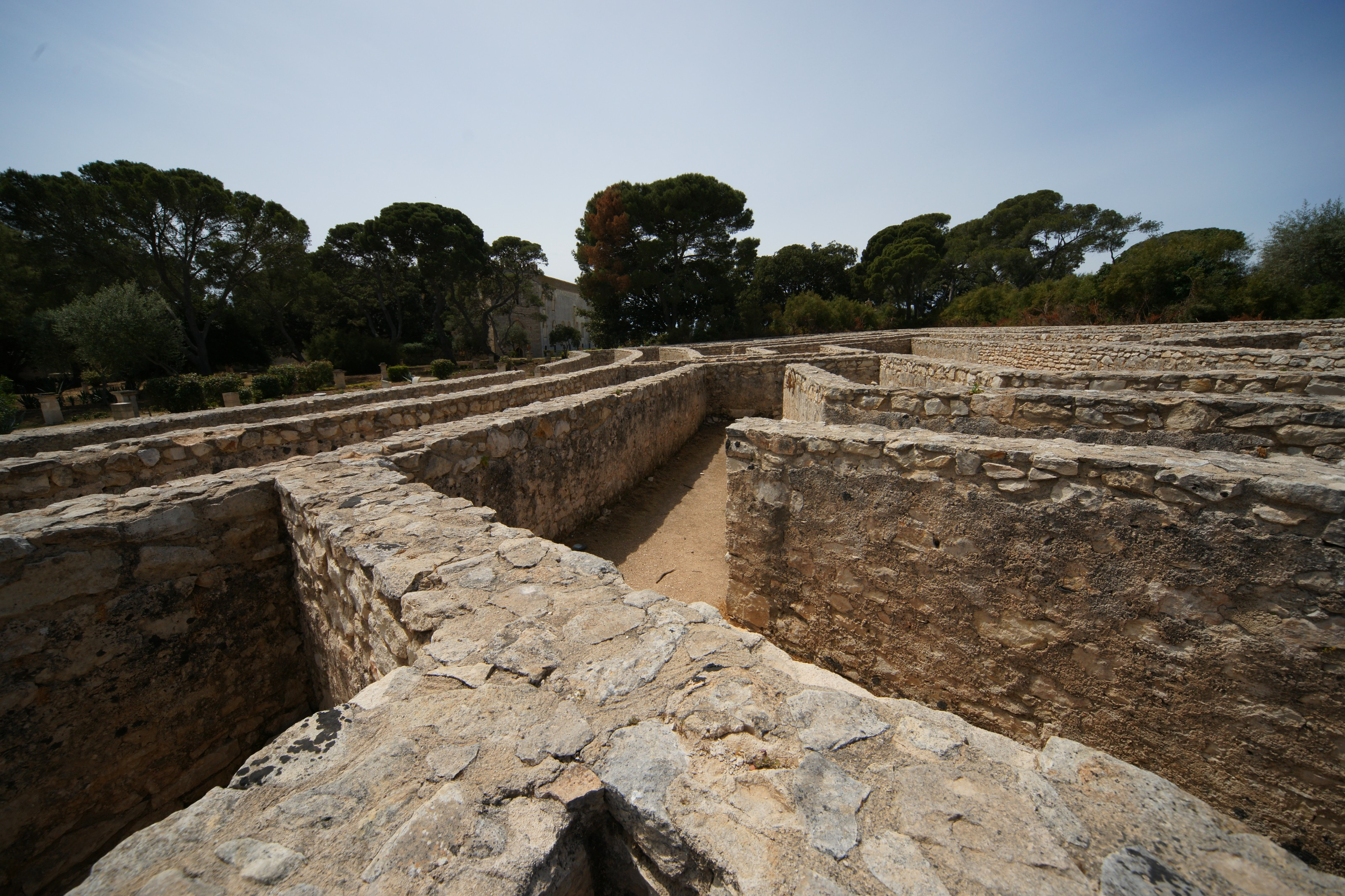 Parco del Castello di Donnafugata: Labirinto